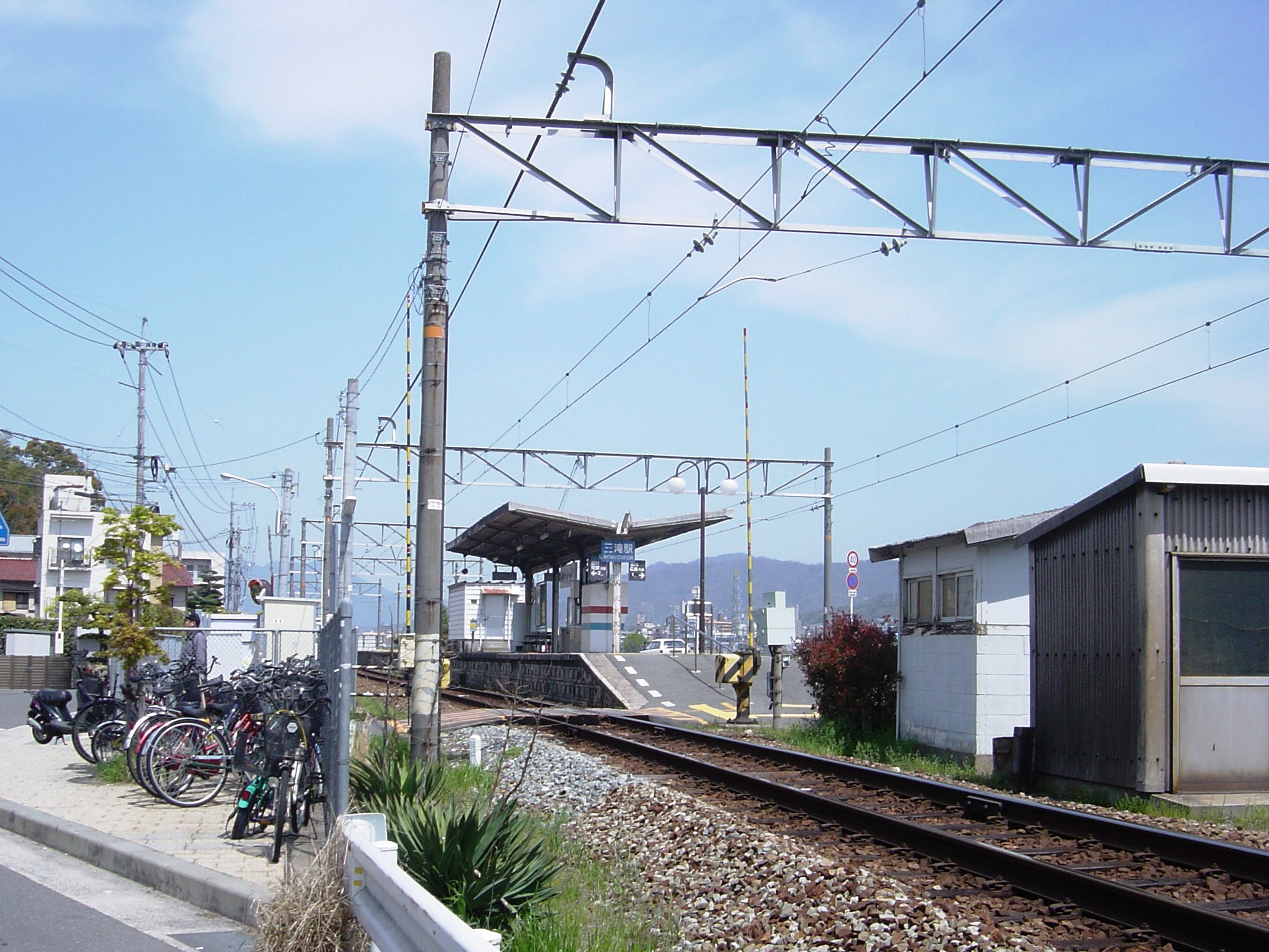 Mitaki Station platform on the JR Kabe Line in Hiroshima, Hiroshima Prefecture, Japan